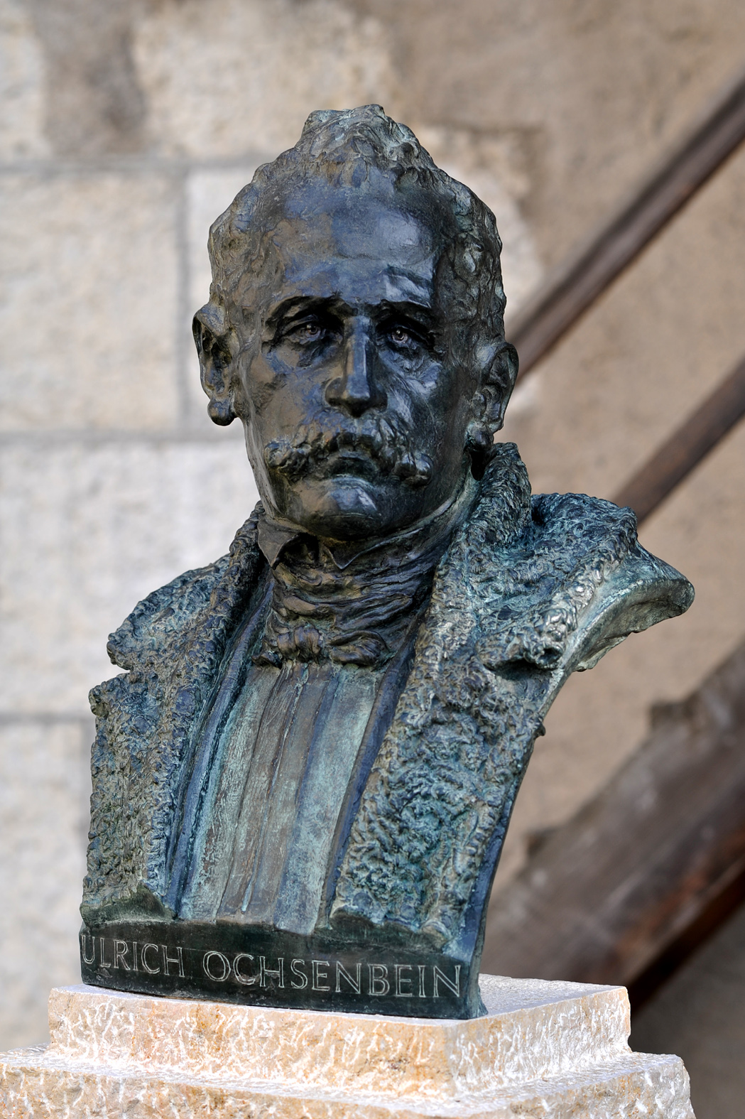 Bronze bust of Ulrich Ochsenbein in the courtyard of Nidau castle; Berne, Switzerland. Unknown artist. Unveiled on 11 November 2011 on the occasion of the 200th birthday of Ochsenbein.